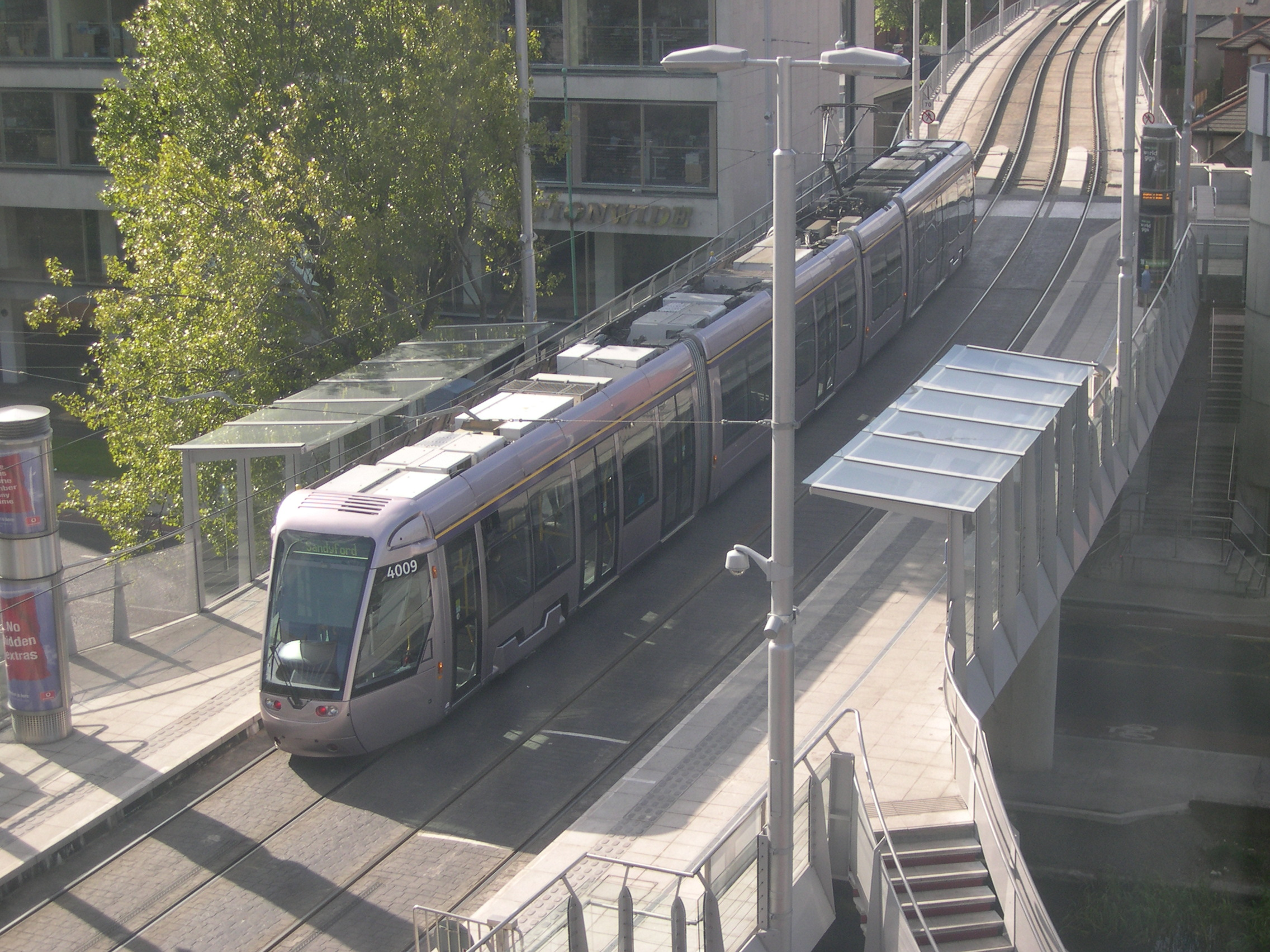 Luas light rail